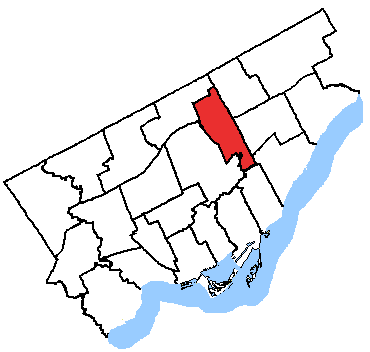 Map of the Don Valley East electoral district. Based on Earl Andrew's :Image:Ct04.PNG and :Image:St04.PNG, created by SimonP.